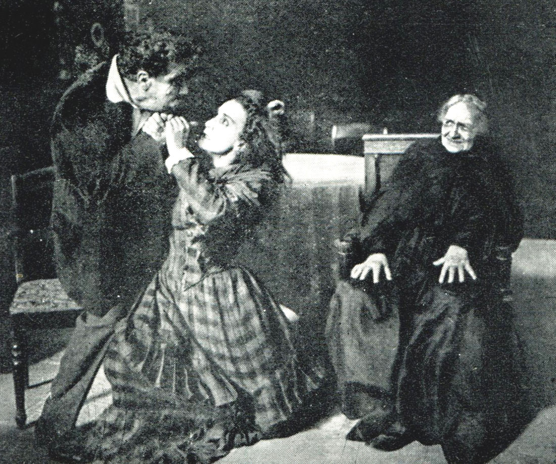 Dillo Lombardi, Maria Carmi e Giacinta Pezzana in una scena di Teresa Raquin - (Martoglio 1915) prod. Morgana Film - Roma